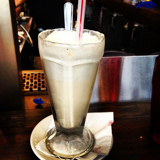 Boston Cooler done Detroit Style (Vernor's)